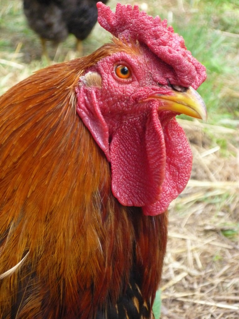 Close up of a Golden Laced Wyandotte rooster.